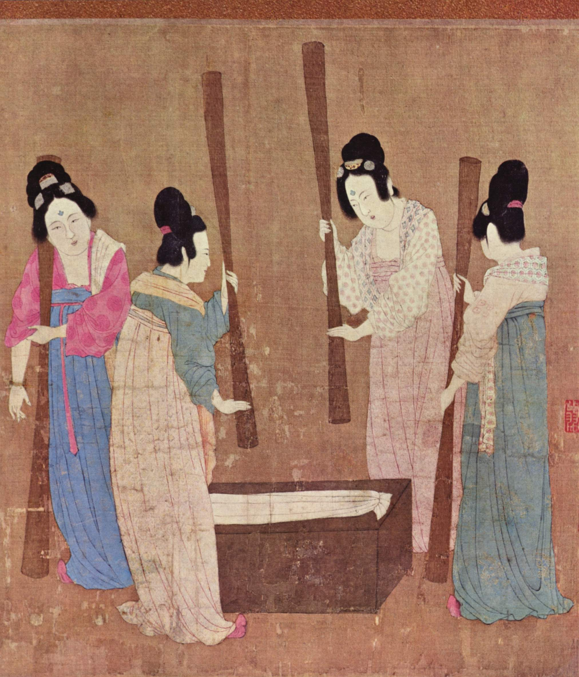 Cropped from a Song dynasty painting attributed to Emperor Huizong in the style of Tang dynasty painter Zhang Xuan.